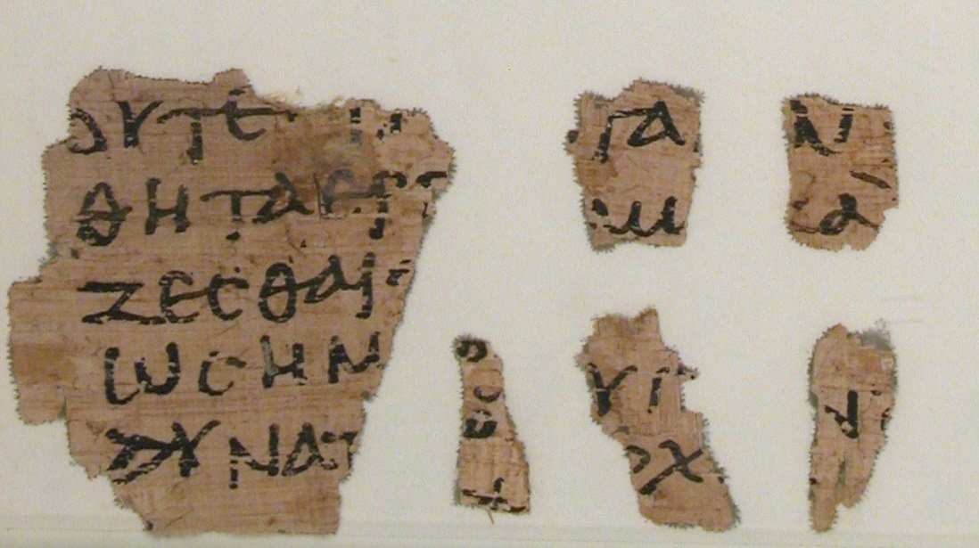 Papyrus 128 recto, showing John 9:3-4